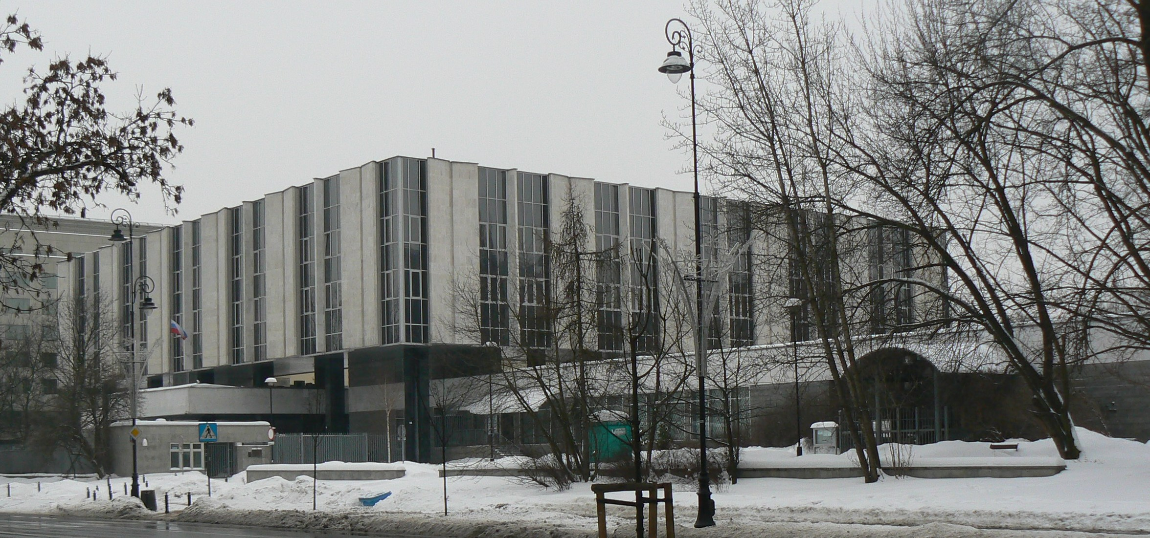 Russian trade mission in Warsaw, Belwederska street side, consulate